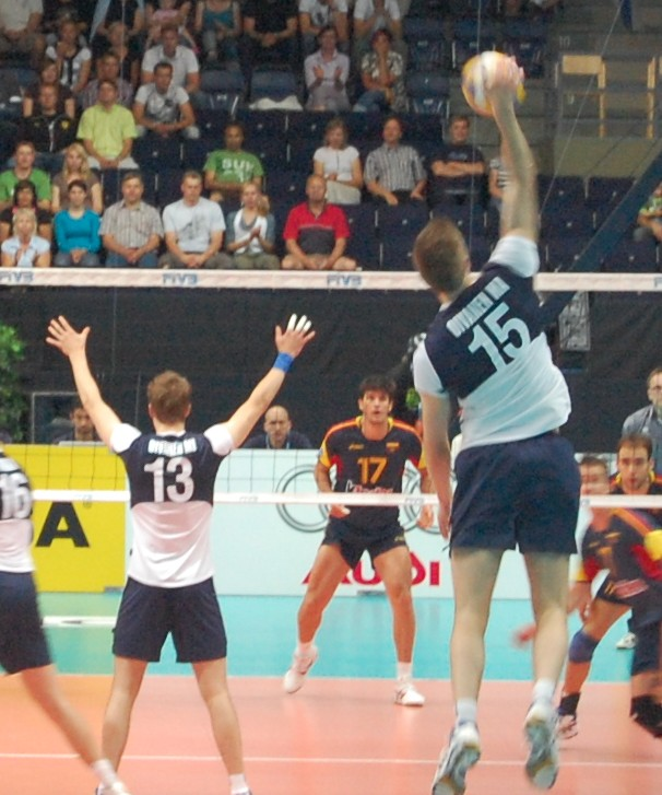 Finland volleyball player Matti Oivanen serving in World League match summer 2008.